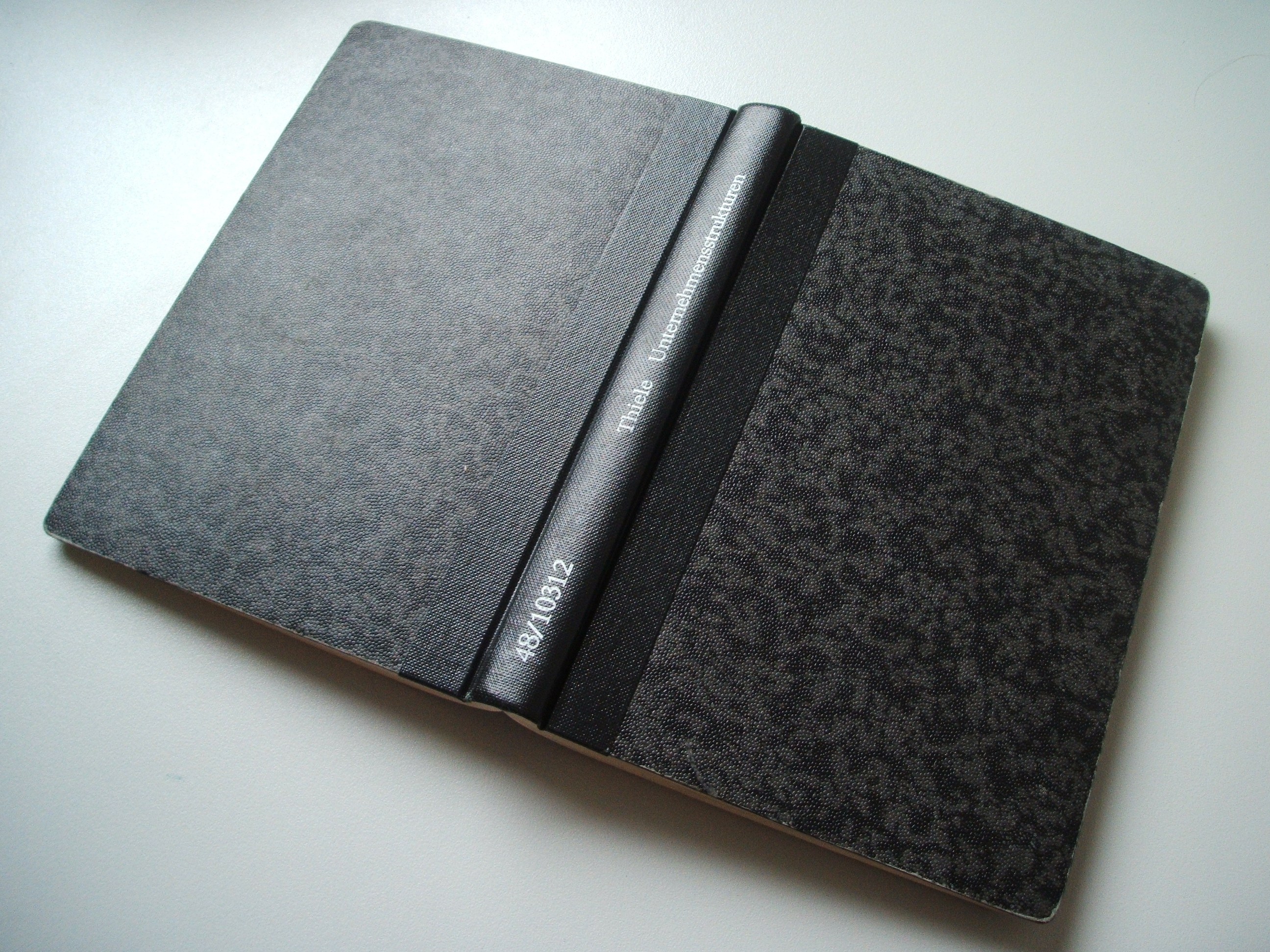 Shelf Mark on spine of a book of Württembergische Landesbibliothek, Stuttgart, Germany